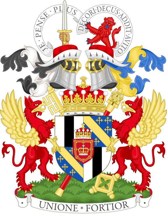 coat of arms of the Earl of Mar and Kellie, premier viscount of Scotland Arms. Quarterly: 1st and 4th, Argent a Pale Sable (Erskine); 2nd and 3rd, Azure a Bend between six Cross Crosslets fitchée Or (Mar); over all on an Escutcheon Gules the Royal Crown of Scotland proper within a Double Tressure flory counterflory, ensigned with an Earl's Coronet also proper (Kellie); behind the shield are placed in saltire a Key wards outwards Or and a Baton Gules garnished Or and ensigned with a Castle of the last (Insignia of Office of the Hereditary Keeper of Stirling Castle). Crest. 1st: On a Cap of Maintenance Gules turned up Ermine a Dexter Hand holding a Skene in pale Argent hilted and pommelled Or; 2nd: On a Cap of Maintenance Gules turned up Ermine a Demi Lion rampant guardant Gules armed Argent. Supporters. On either side a Griffin Argent armed beaked and winged Or. Motto. Over the 1st Crest: Je Pense Plus (I think more); over the 2nd Crest: Decori Decus Addit Avito (He adds honour to the honour of his ancestors); beneath the Shield: Unione Fortior (Strengthened by unity). Cracroft's Peerage